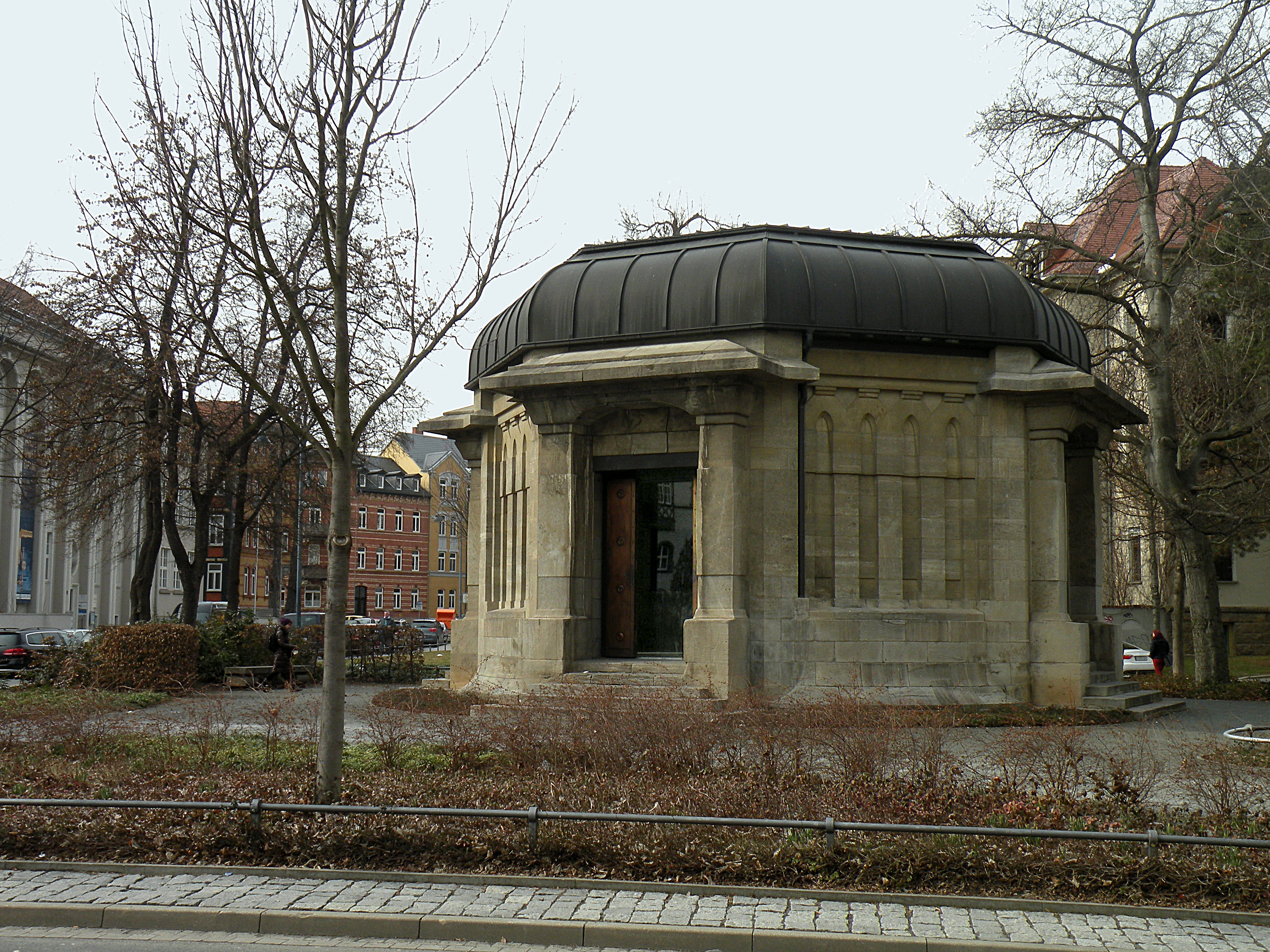 Ernst Abbe Memorial in Jena, Germany